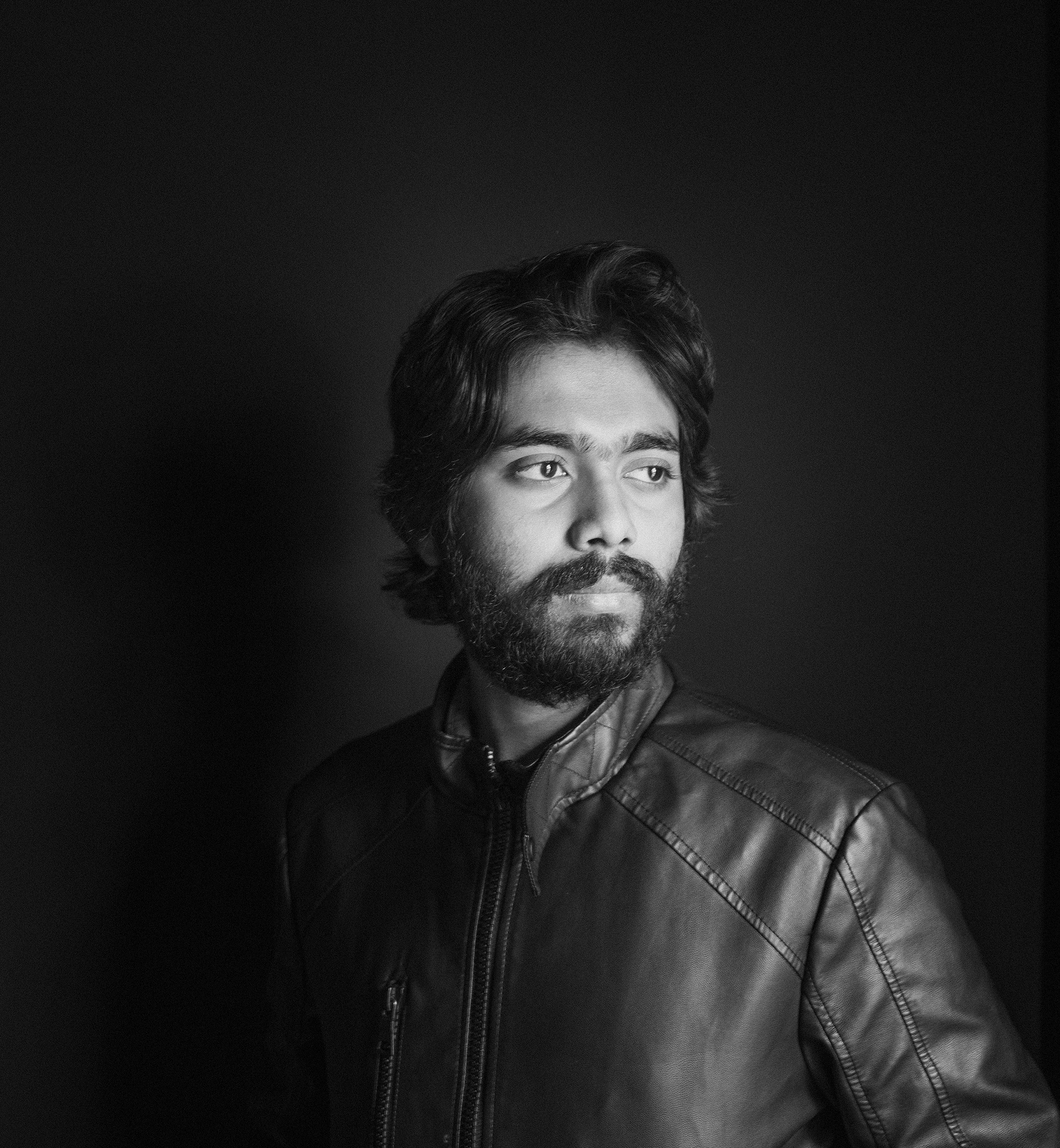 Sarker Protick